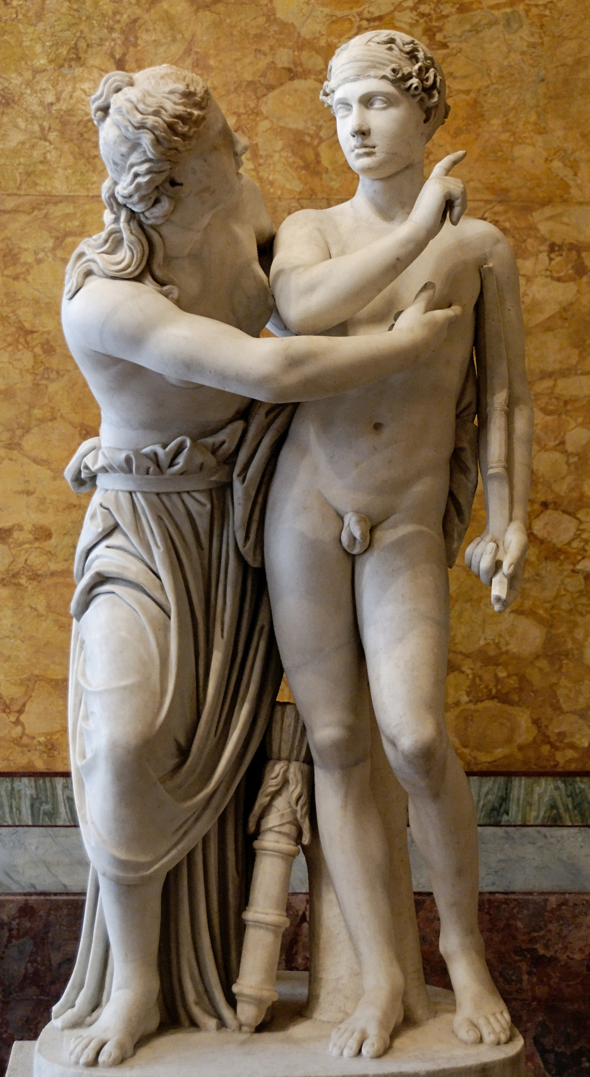 Eros and Psyche. Eros: antique torso and thighs; head (type of the Phidian Sappho), arms and legs are modern additions. Psyche: antique male torso with modern added breasts; the head (Apollinian type), arms and lower body are modern additions. Medium-grained marble (antique parts) and Carrara marble (modern restorations).